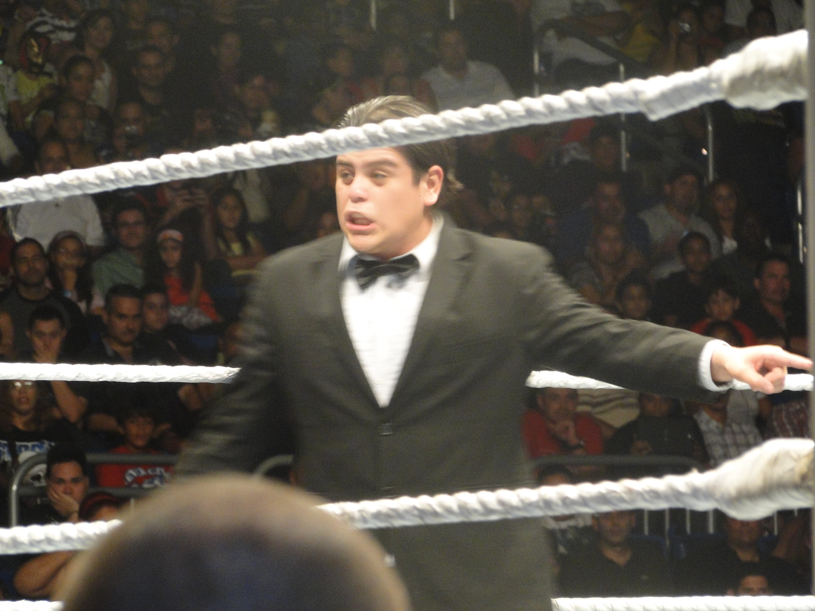 Ricardo Rodriguez at a WWE live vent in Puerto Rico.